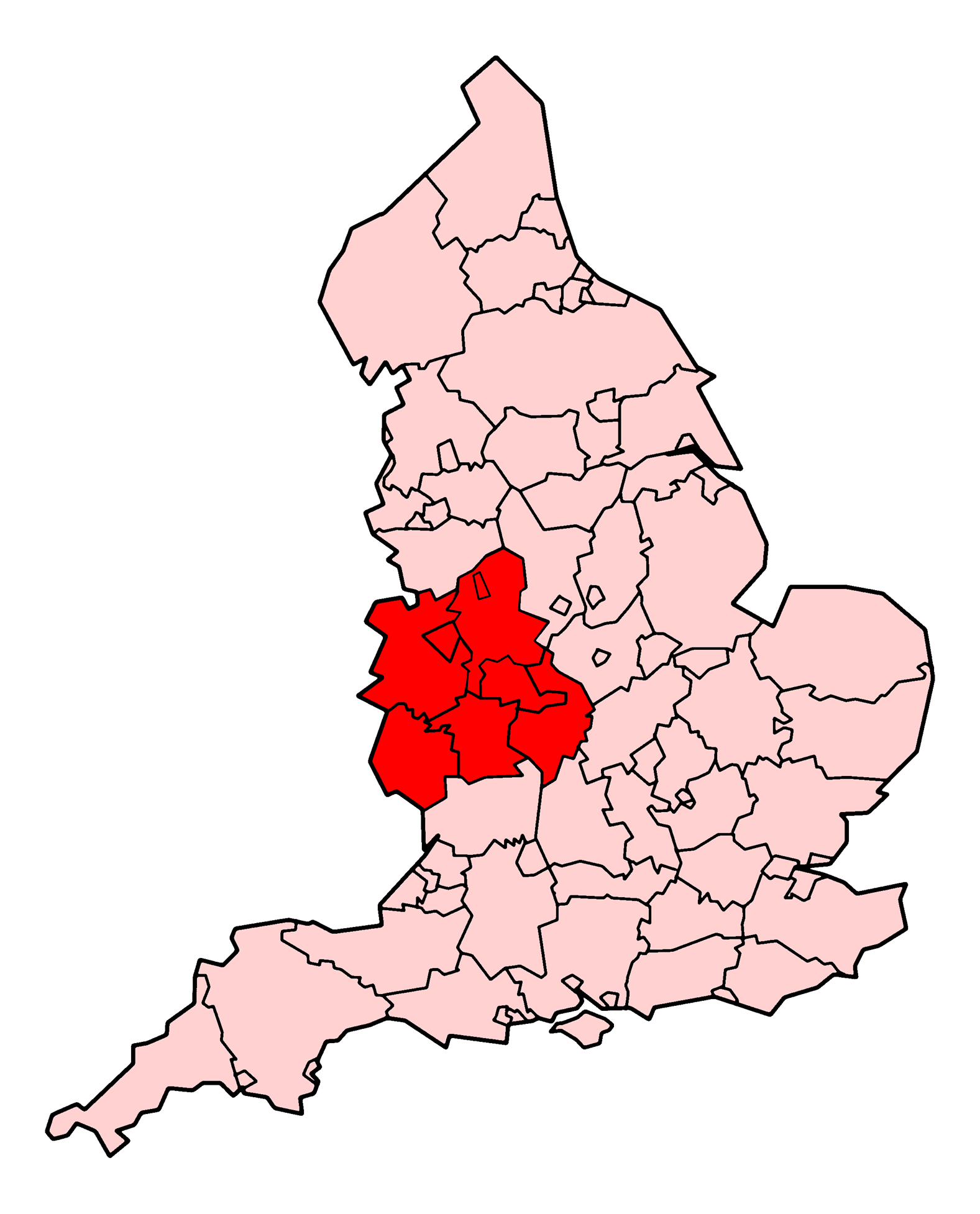 Map of the West Midlands Ambulance Service's coverage area, following the merger with Staffordshire Ambulance Service, Oct 2007.